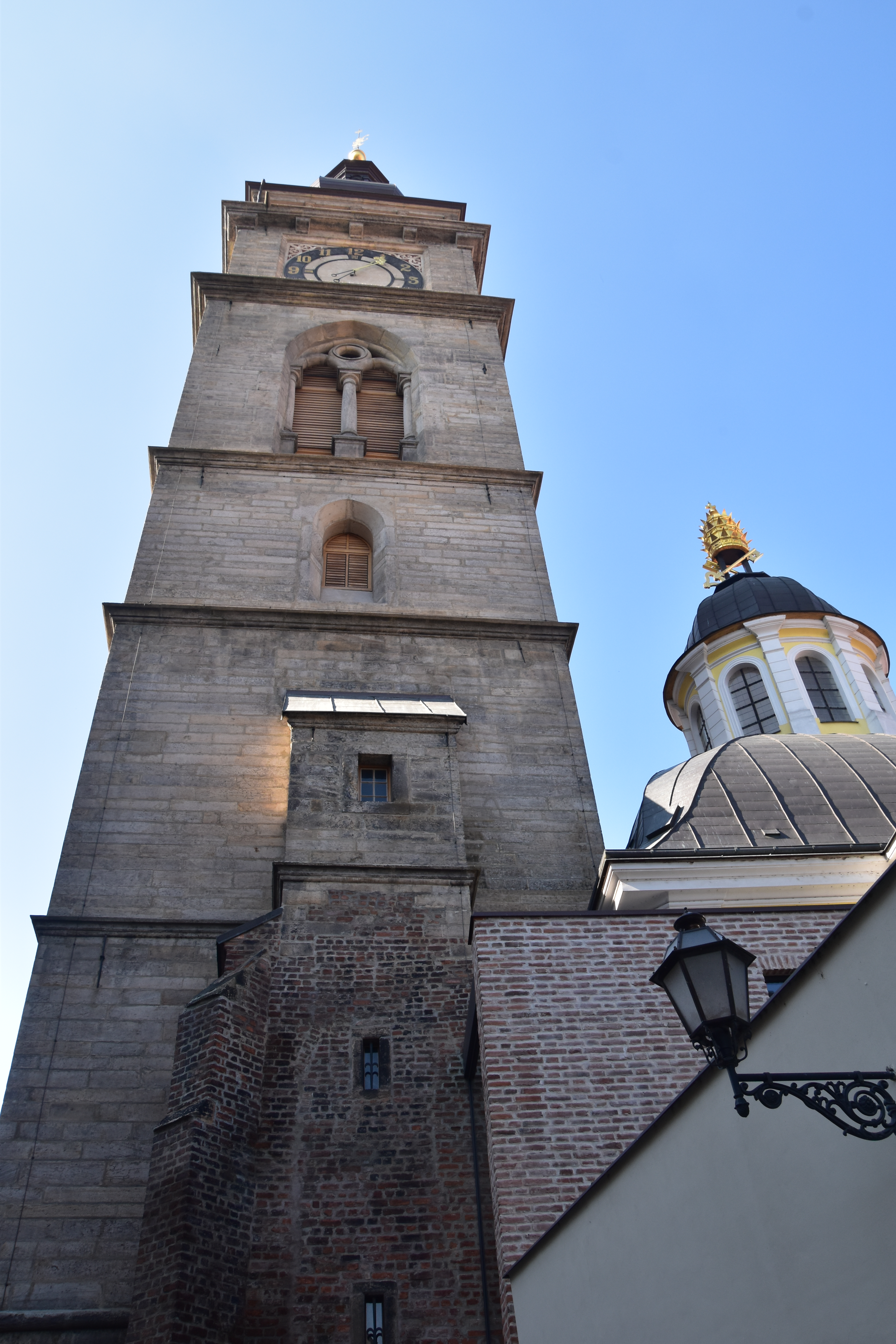 White tower in Hradec Kralove